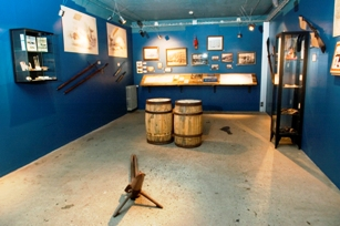 Whalingroom